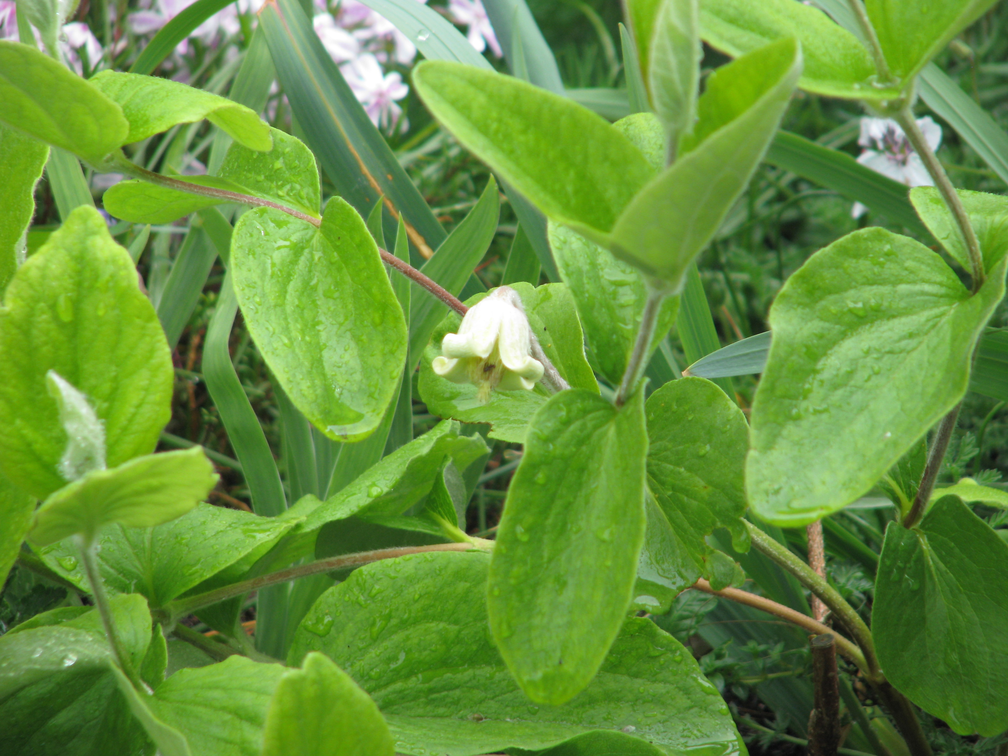 Clematis coactilis. A nice big plant this year.